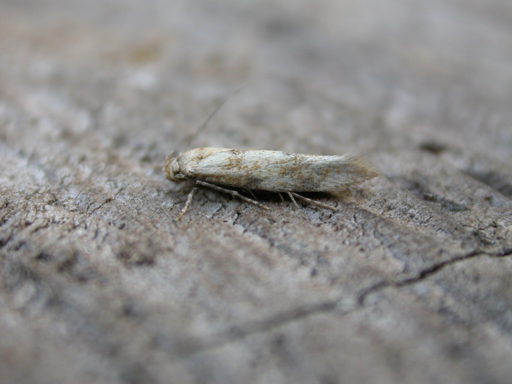 Mompha epilobiella, to MV light, Hellerup, Denmark, 19 July 2005